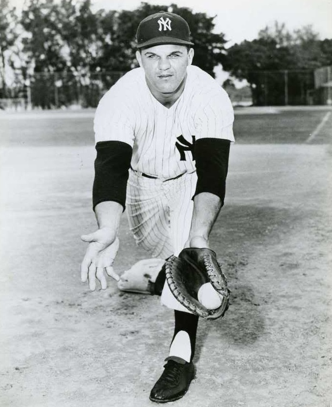 Bill Skowron playing for the New York Yankees in the 1950s